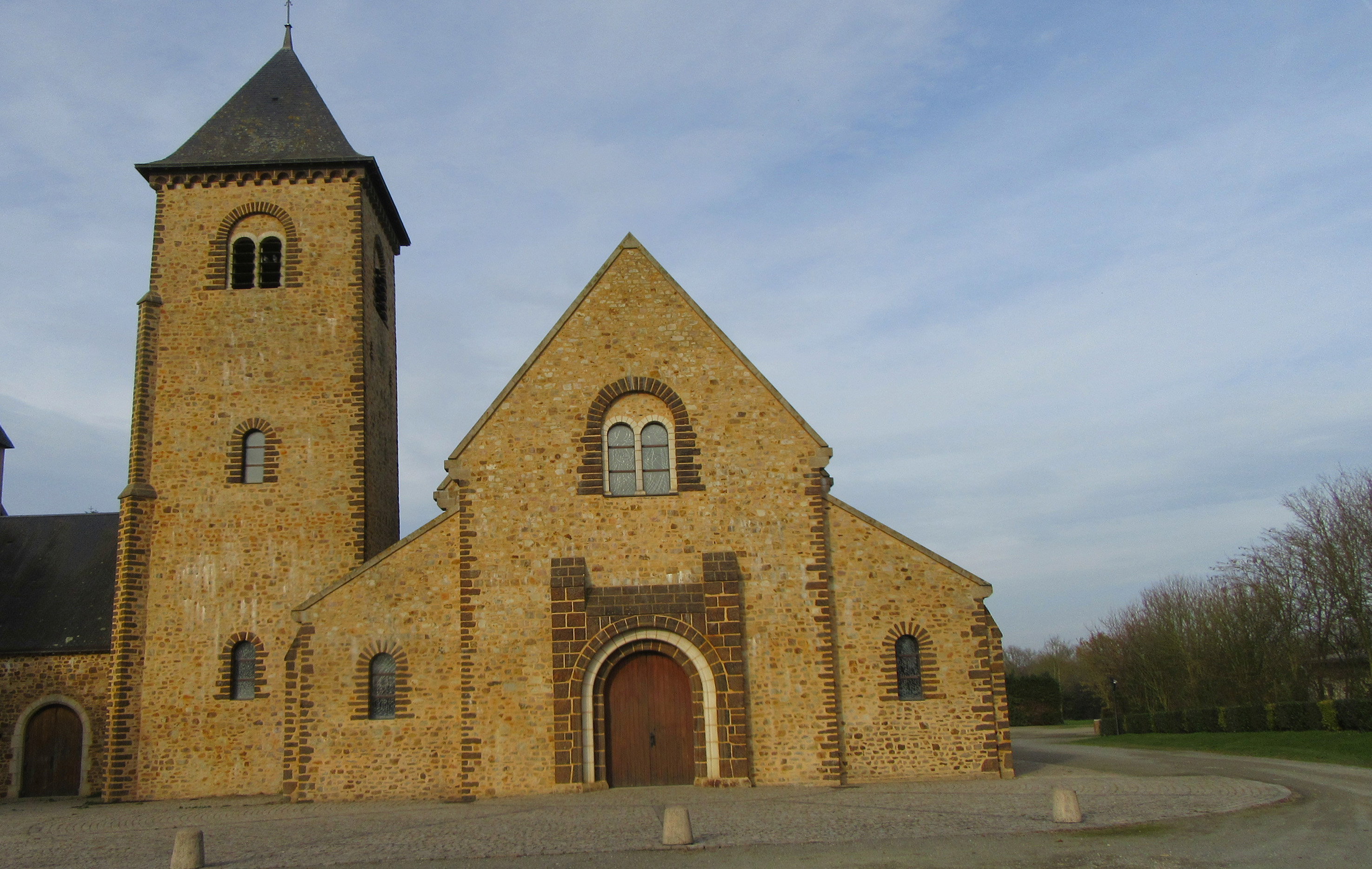 La Cotellerie, in Bazougers, Mayenne, France.